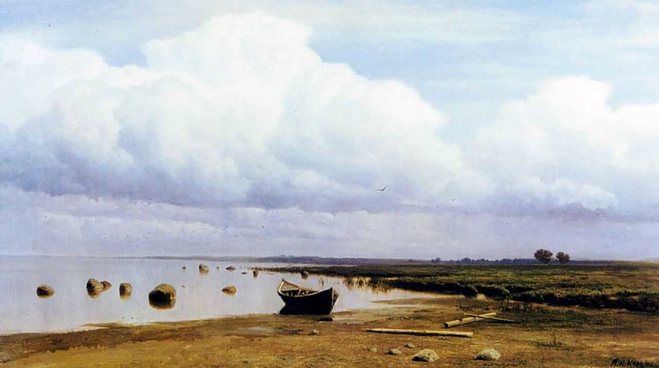 Mikhail Clodt (1832-1902) Gulf Of Finland Coast